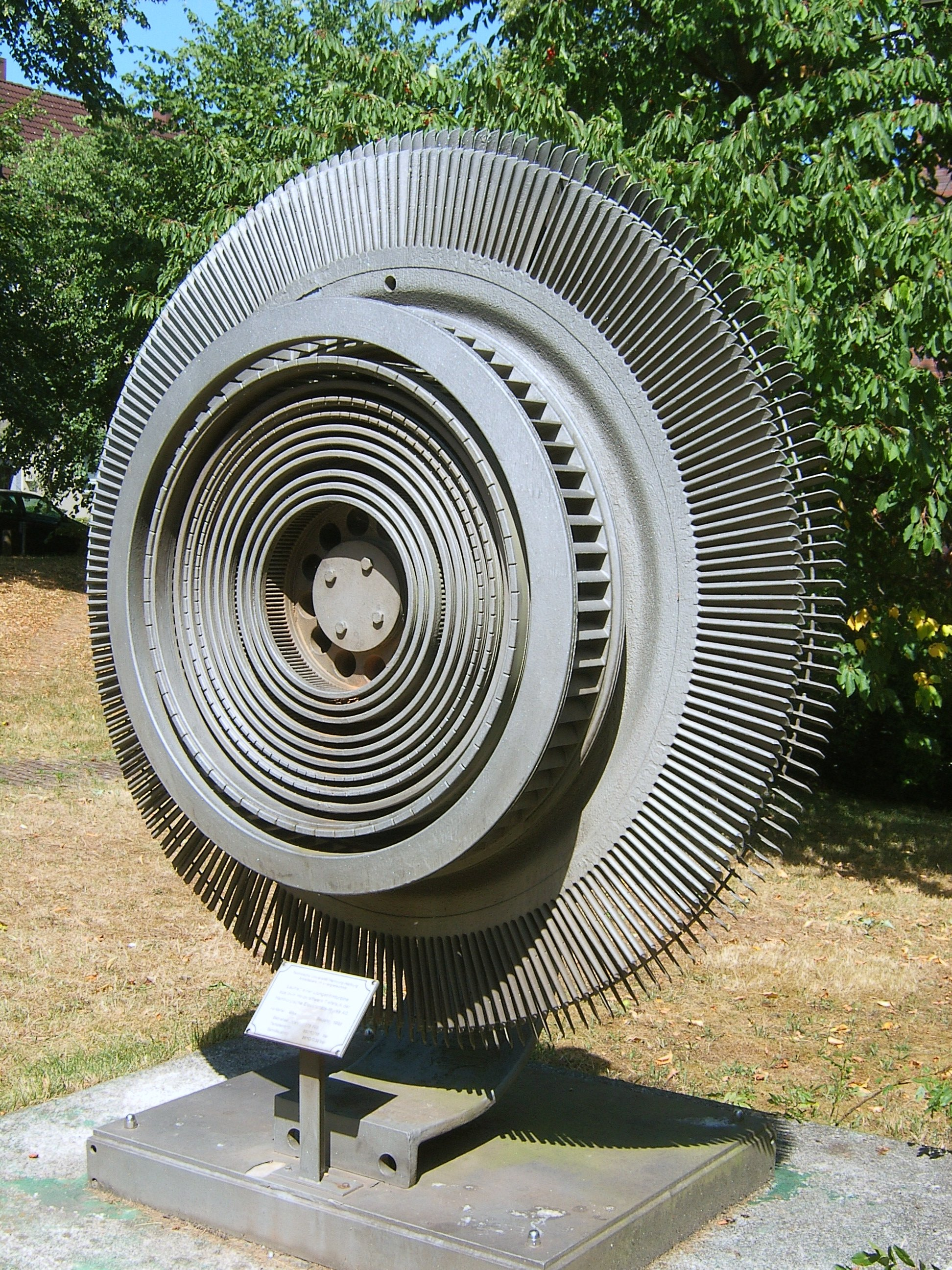 A rotor of a Ljungstroemturbine - see also Steam turbine